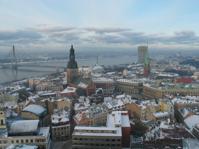 Riga